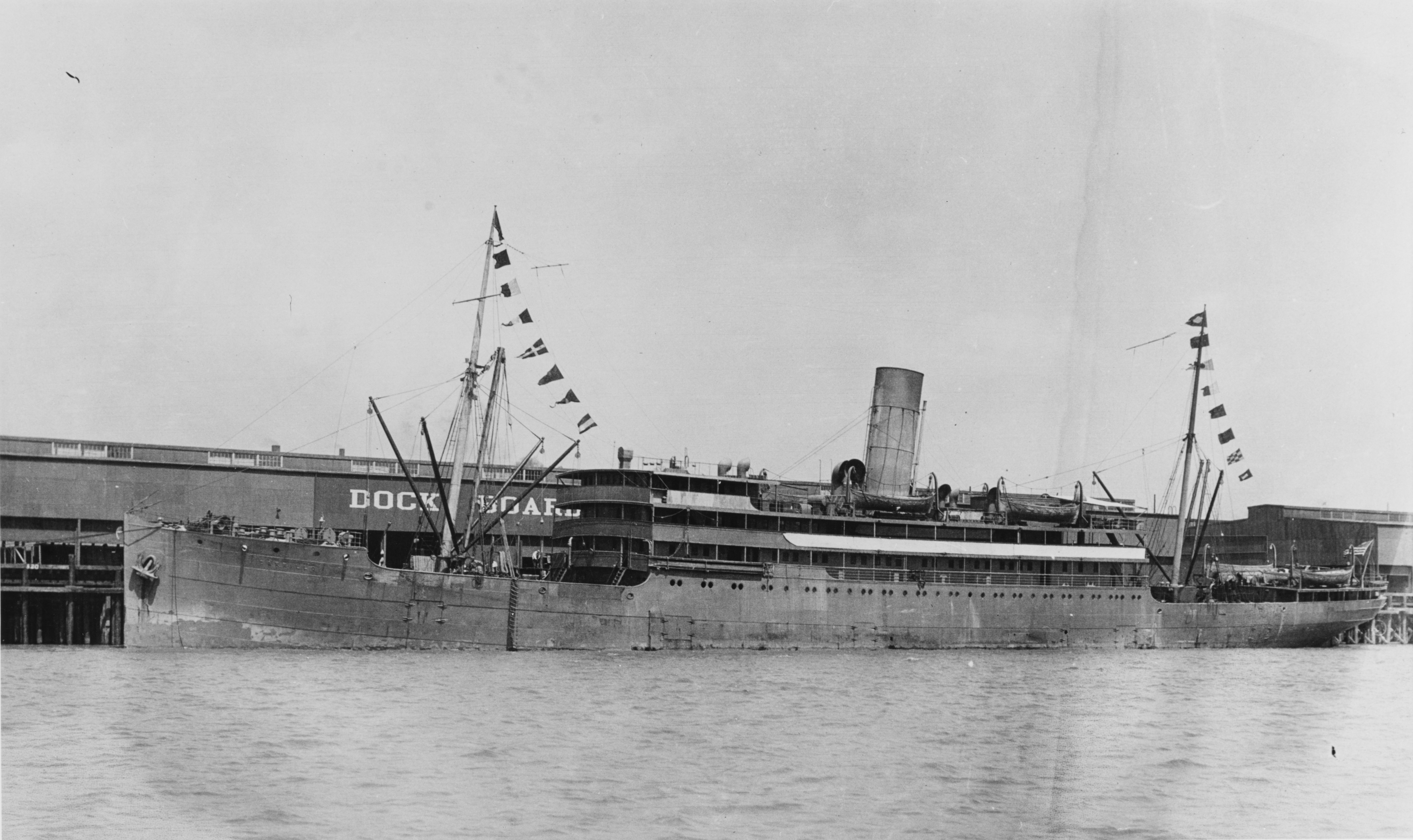 (American Passenger-Cargo Steamship, 1911) In port, circa 1918 This ship served as USS Carrillo (ID # 1406) in 1918-1919. Photograph from the Bureau of Ships Collection in the U.S. National Archives.